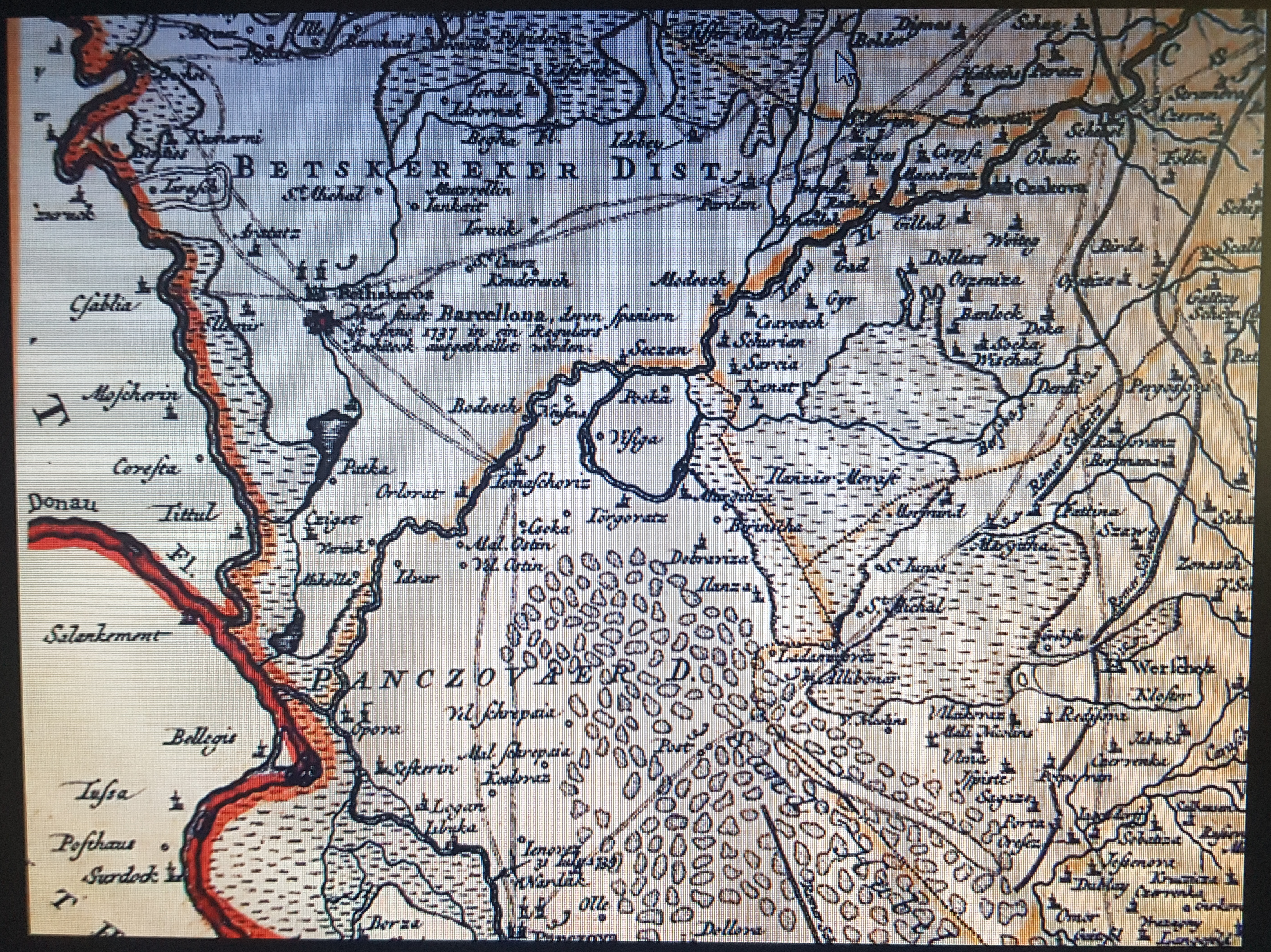 Mapa iz 1740.godine sa ubeleženim naseljem “Nova Barselona”